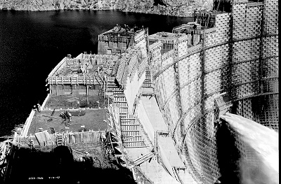 Dam on the Skagit River under construction.